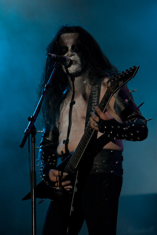 Abbath during the Immortal concert at the 2007 Wacken Open Air.